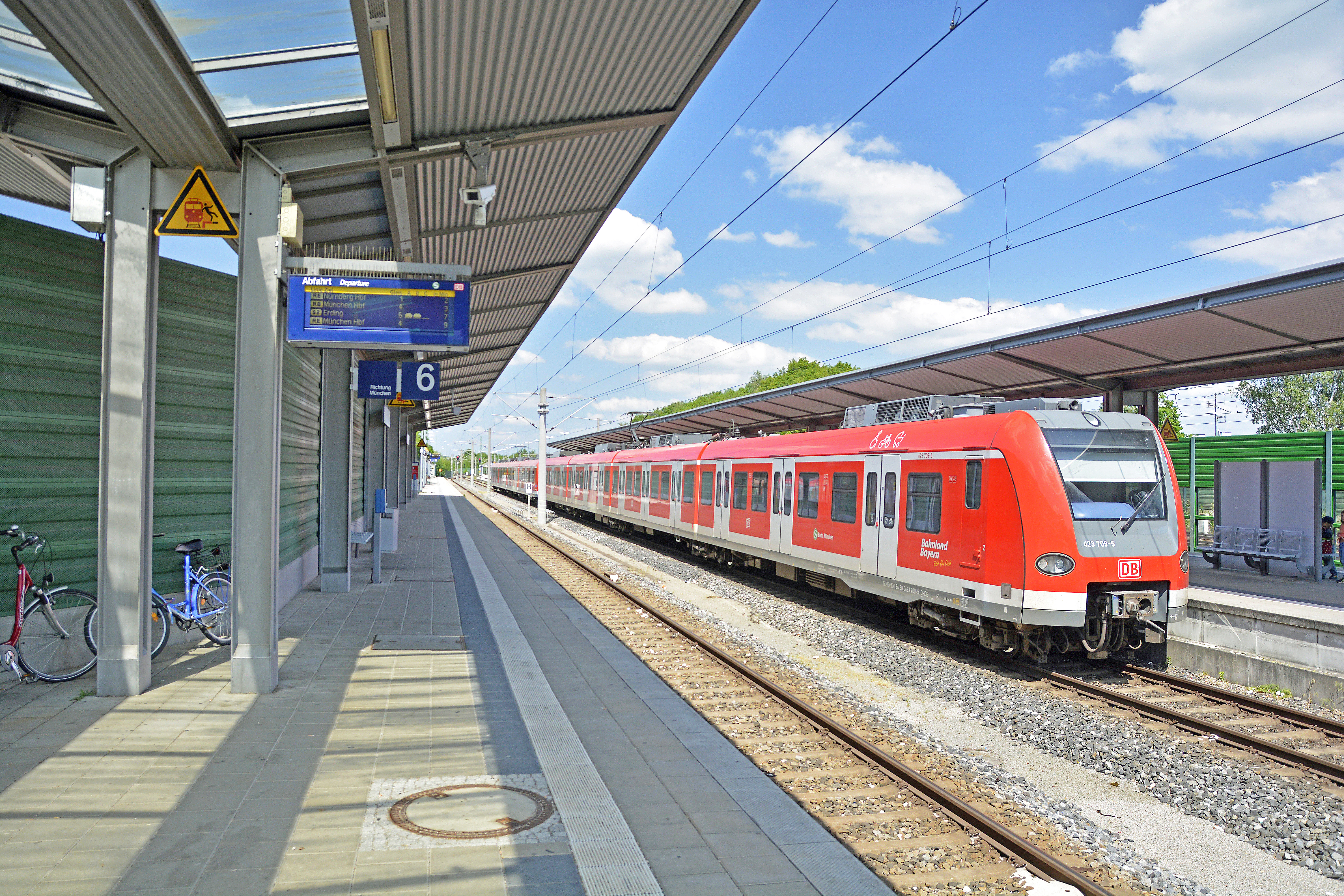 Petershausen - Train Station (Deutsche Bahn) - End stop of the S2 line of the MVV